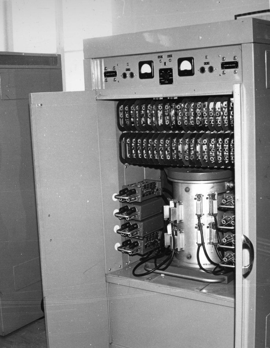 Image of the hardware in the FREDERIC computer